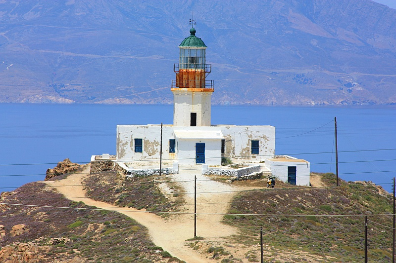 Armenistis lighthouse mykonos